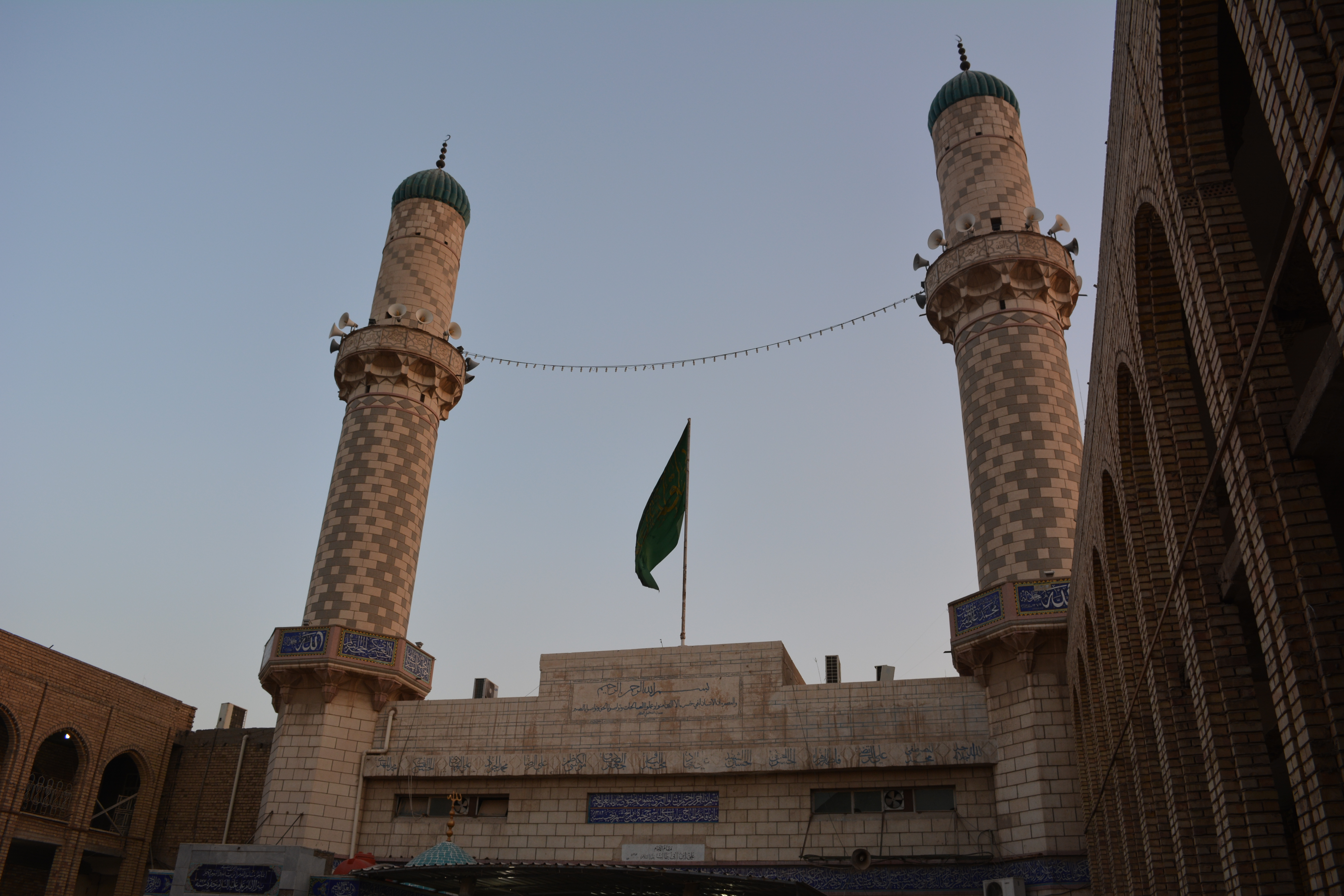 جامع براثا او ما يعرف بجامع المنطكة